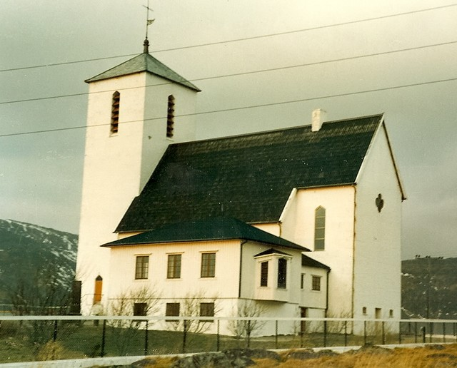 Værøy new church in Værøy